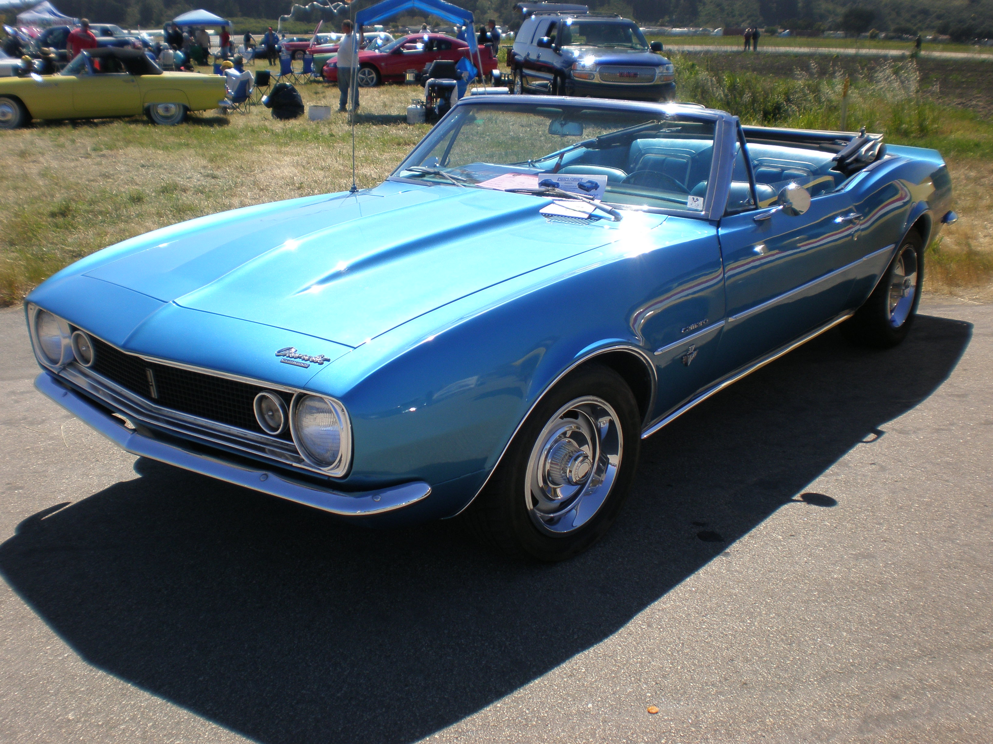 A 1967 Chevrolet Camaro convertible at the Pacific Coast Dream Machines vehicle show at the Half Moon Bay Airport in Half Moon Bay, California.